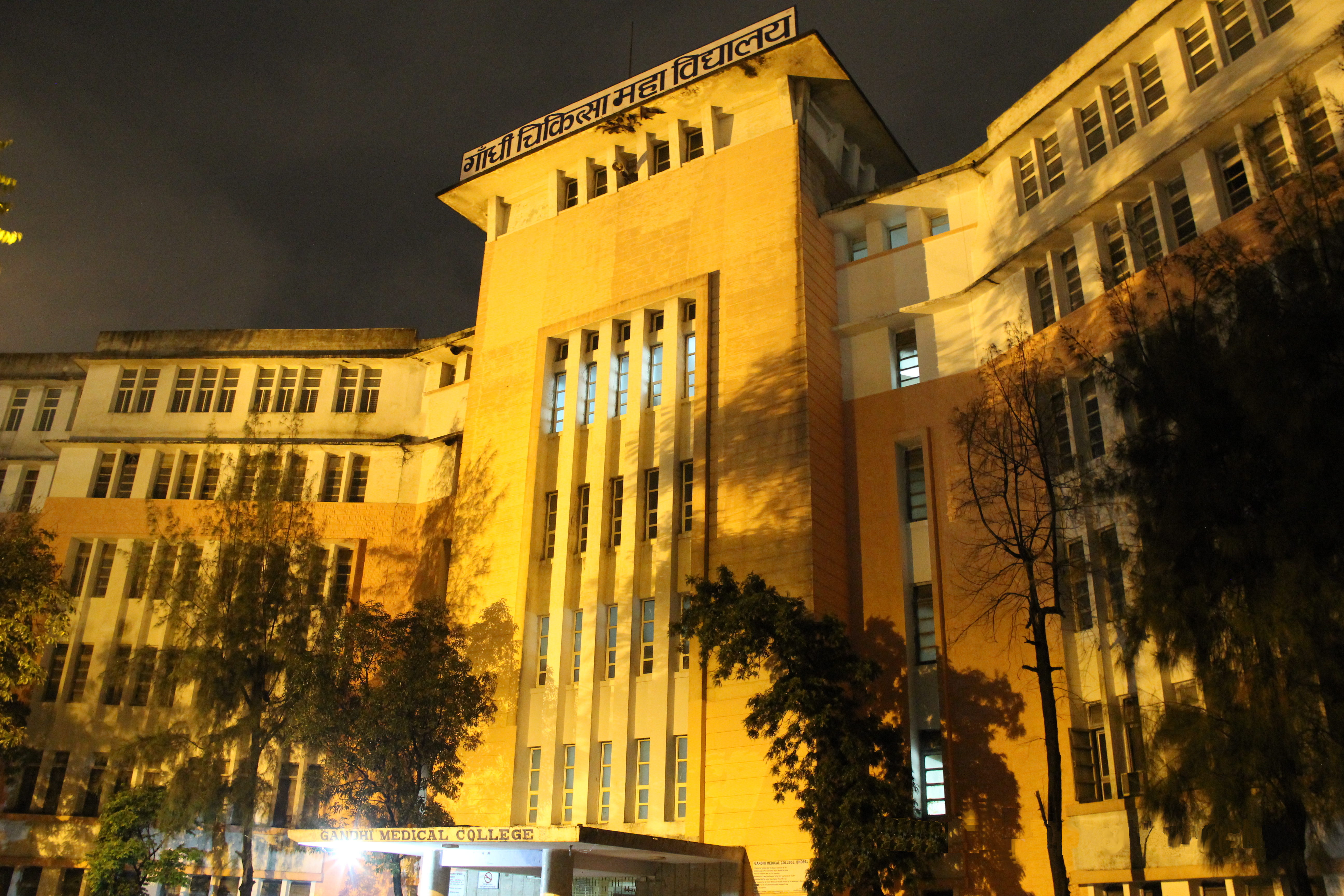 GMC, bhopal front